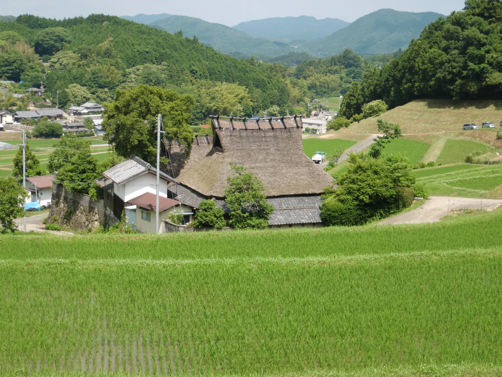 Thatching at summer field at nose Osaka